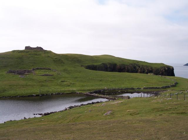 Broch of Culswick, Shetland. Looking SW. Evidence of occupation through many centuries.